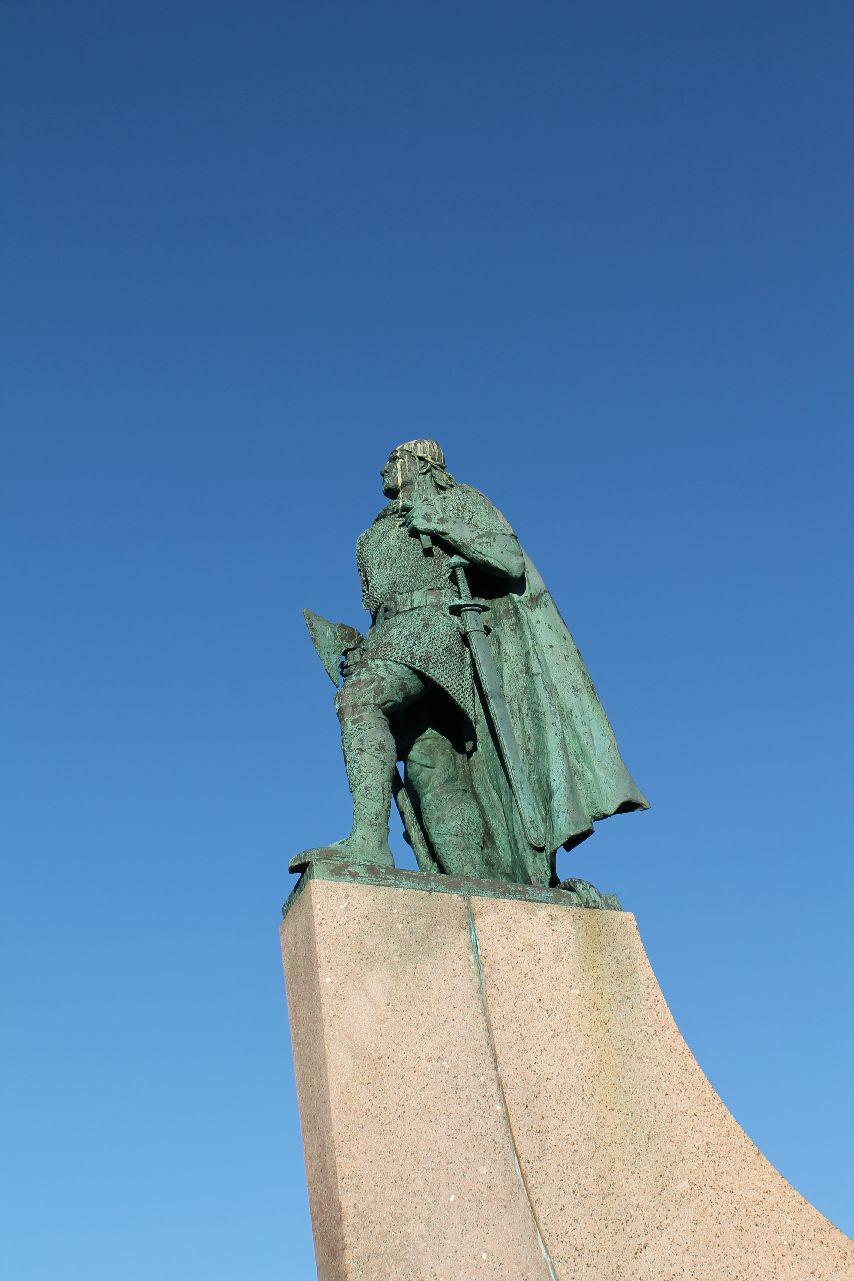 Statue of explorer Leif Ericson (Leifur Eiriksson) in front of Hallgrimskirkja in Reykjavik, Iceland